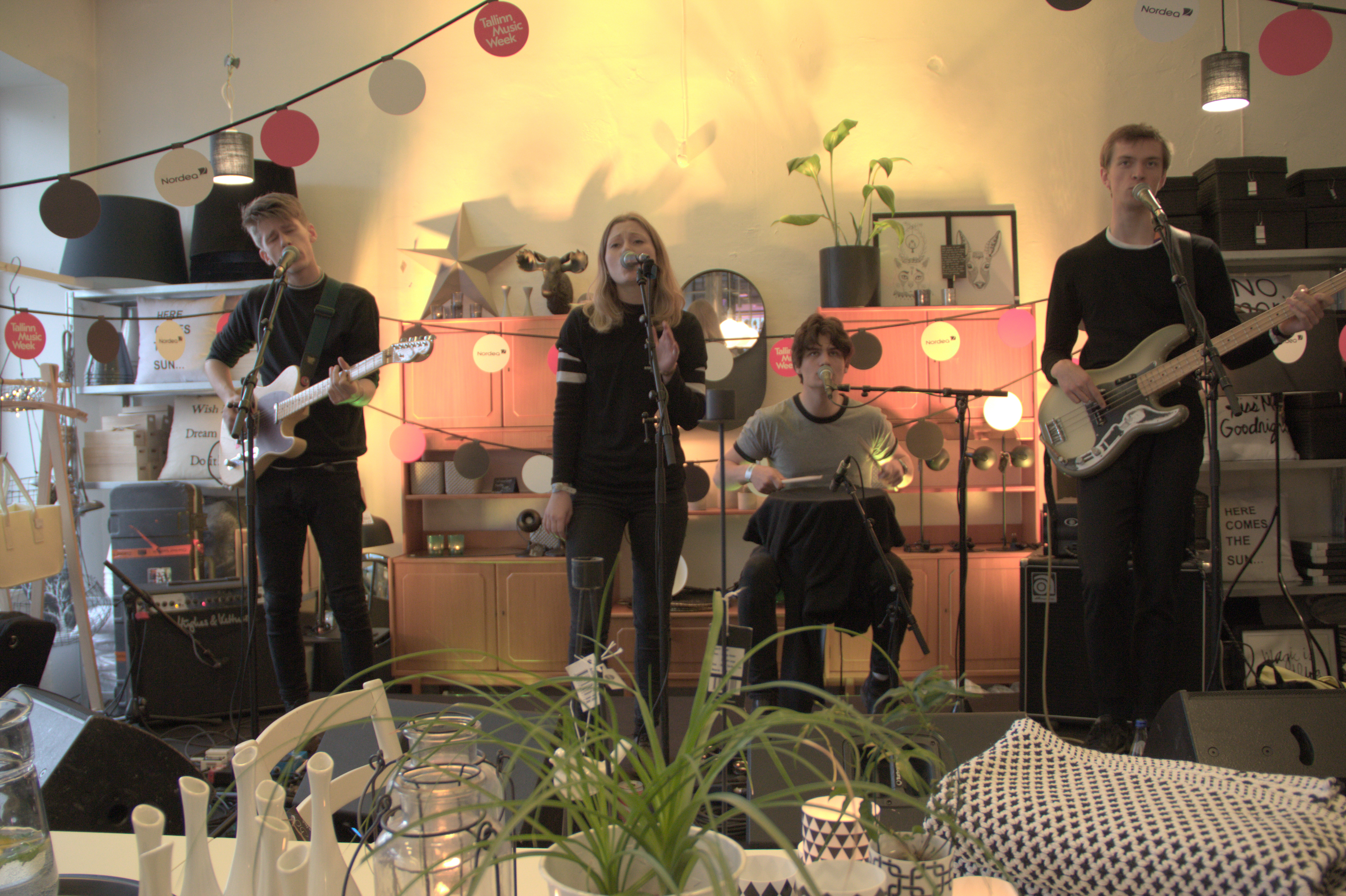 Sløtface at Tallinn Music Week 2017